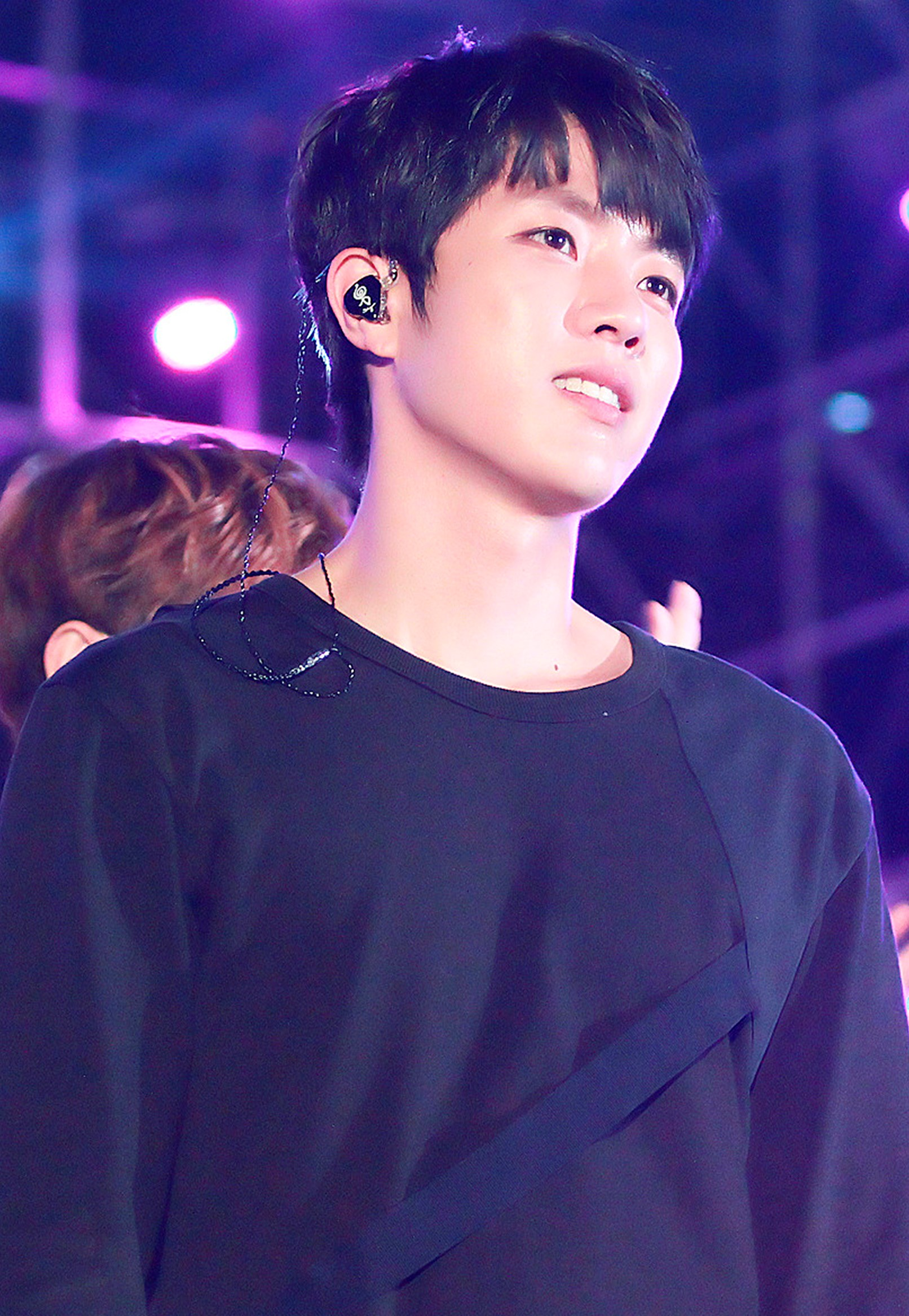 Lee Sung-yeol at The Brilliant Motor Festival on May 21, 2016.